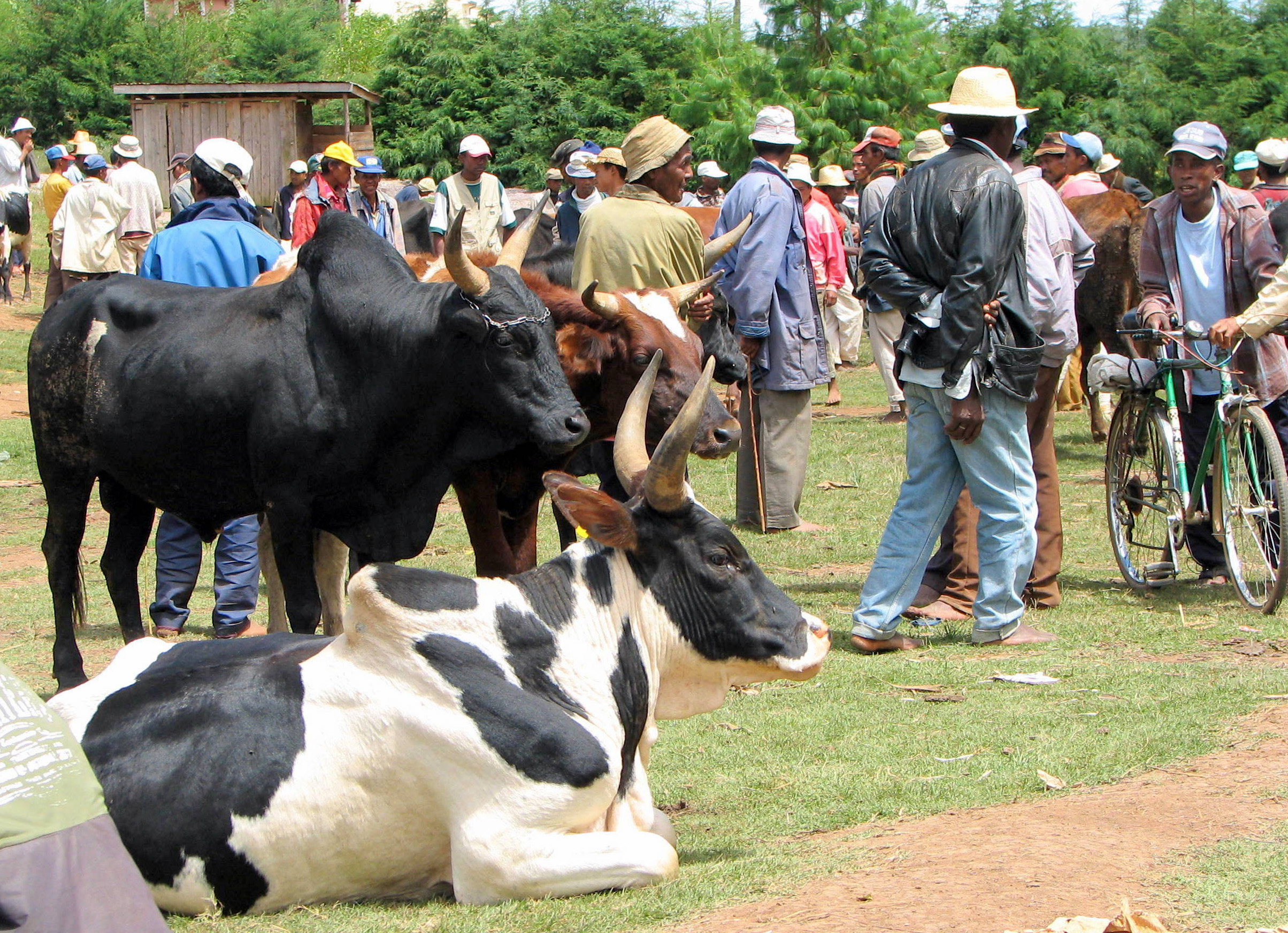 Zebus at Ambatolampy market, Madagascar